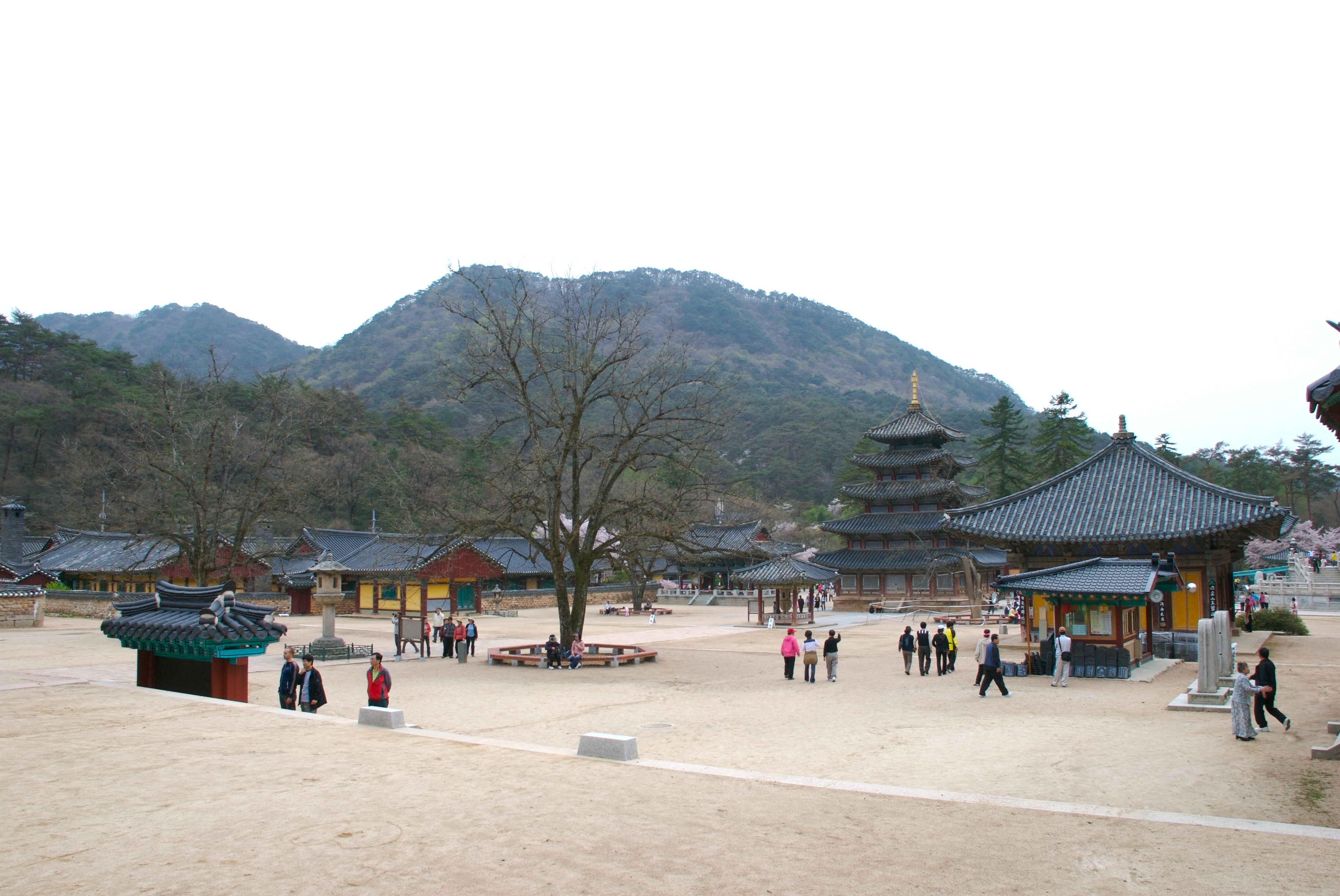 Photograph of the temple grounds for Beopjusa in South Korea.